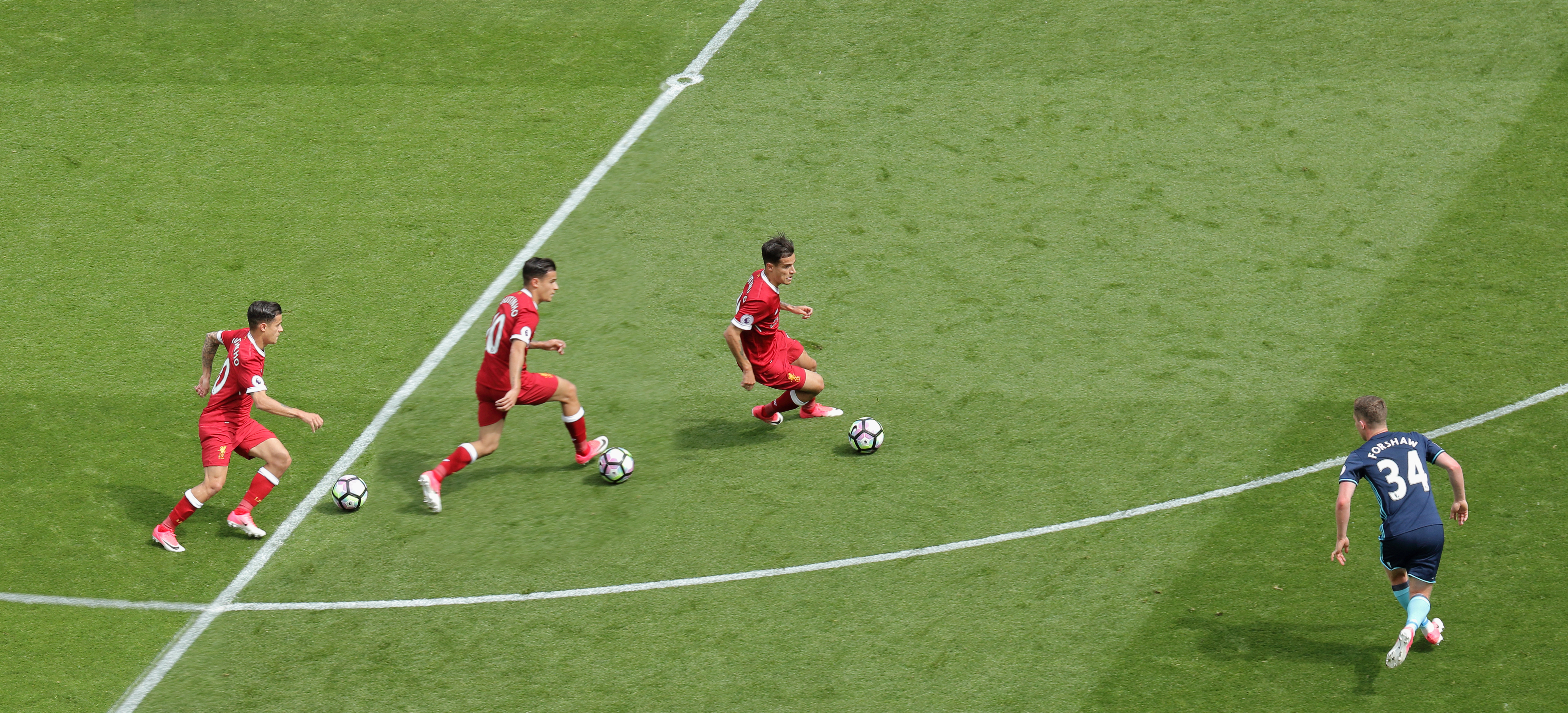 Coutinho dribble